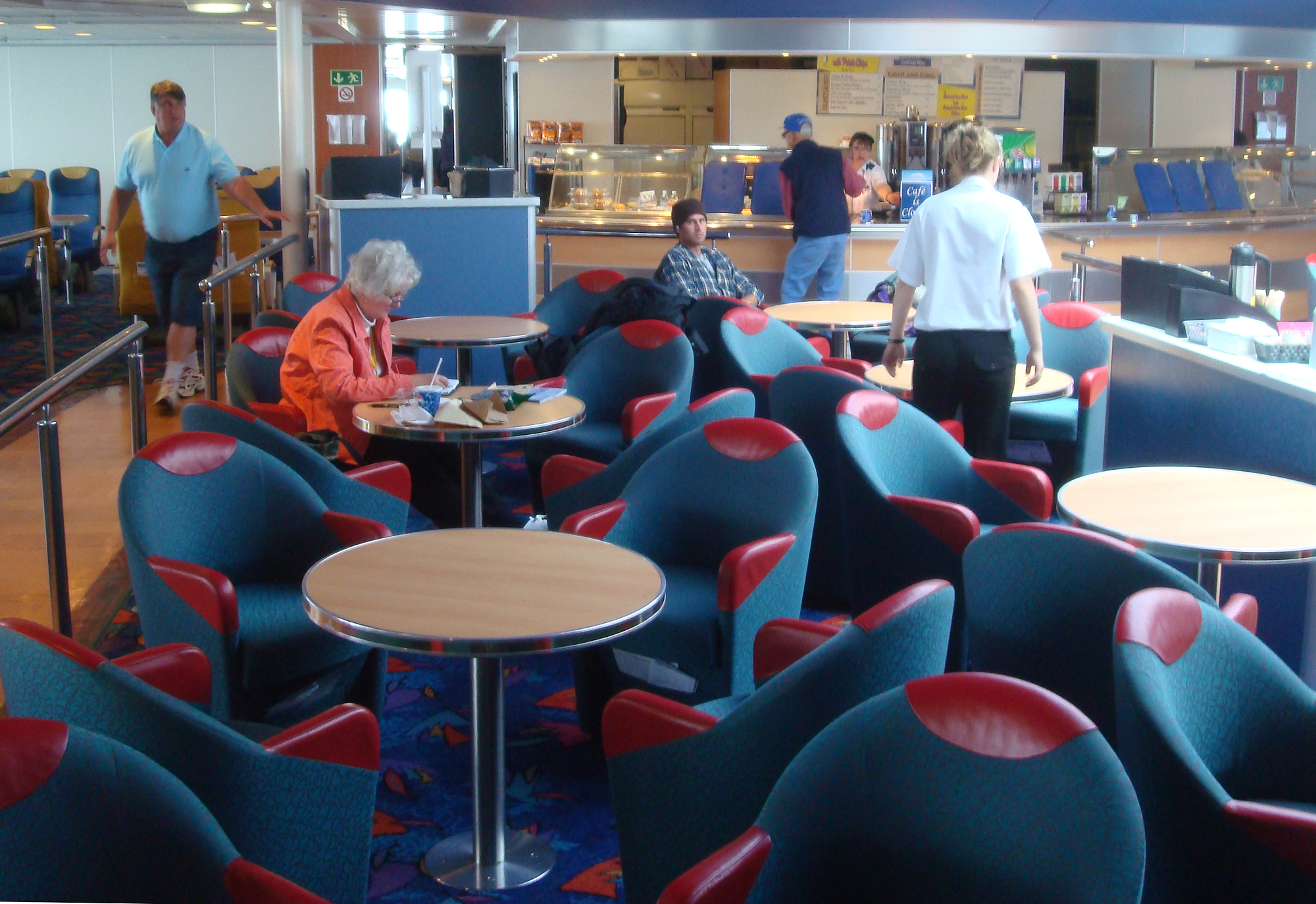 Dining area of CAT ferry, heading to Yarmouth, NS from Bar Harbor, ME